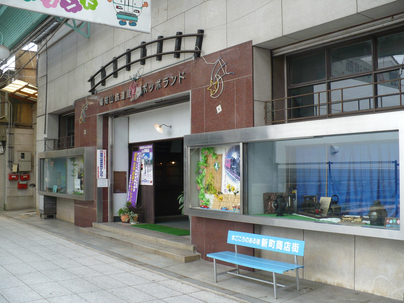 Front view of Fukuchiyama Poppoland (railway museum at Fukuchiyama city, Kyoto prefecture Japan)